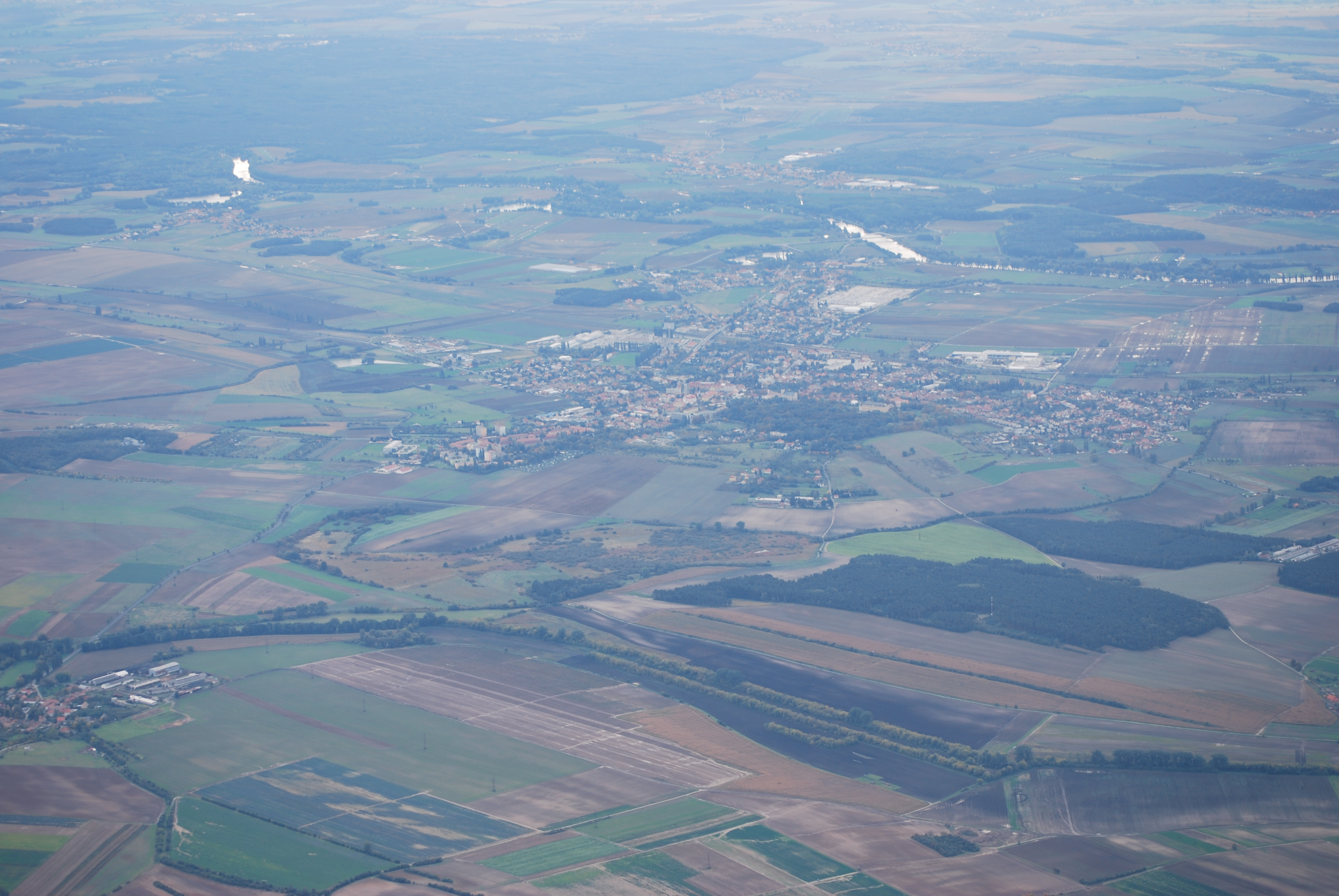 Lysá nad Labem, city in the Central Bohemia